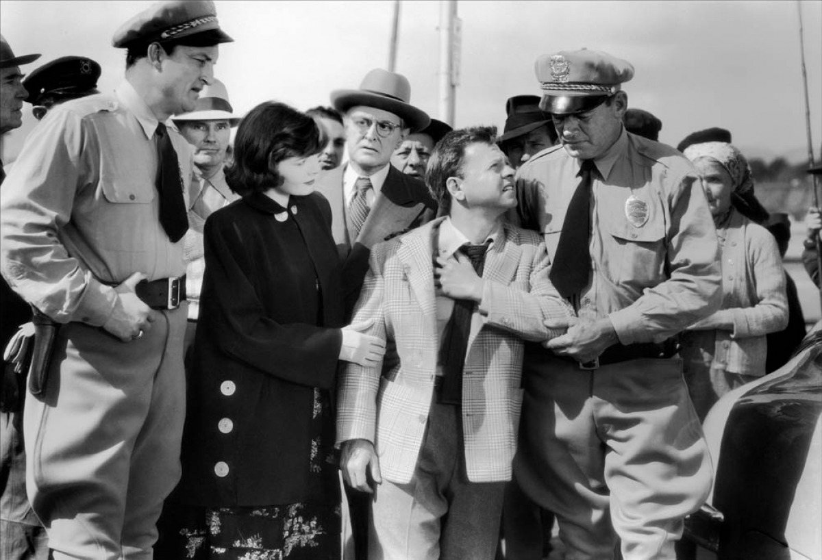 Barbara Bates and Mickey Rooney (center) in Quicksand (1950) - publicity still